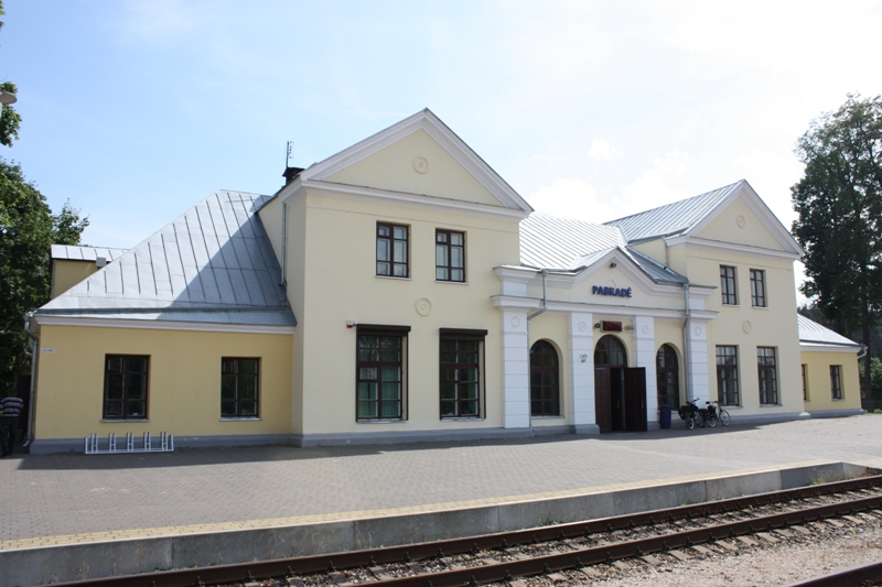 Pabradė railway station, Švenčionys district, Lithuania.